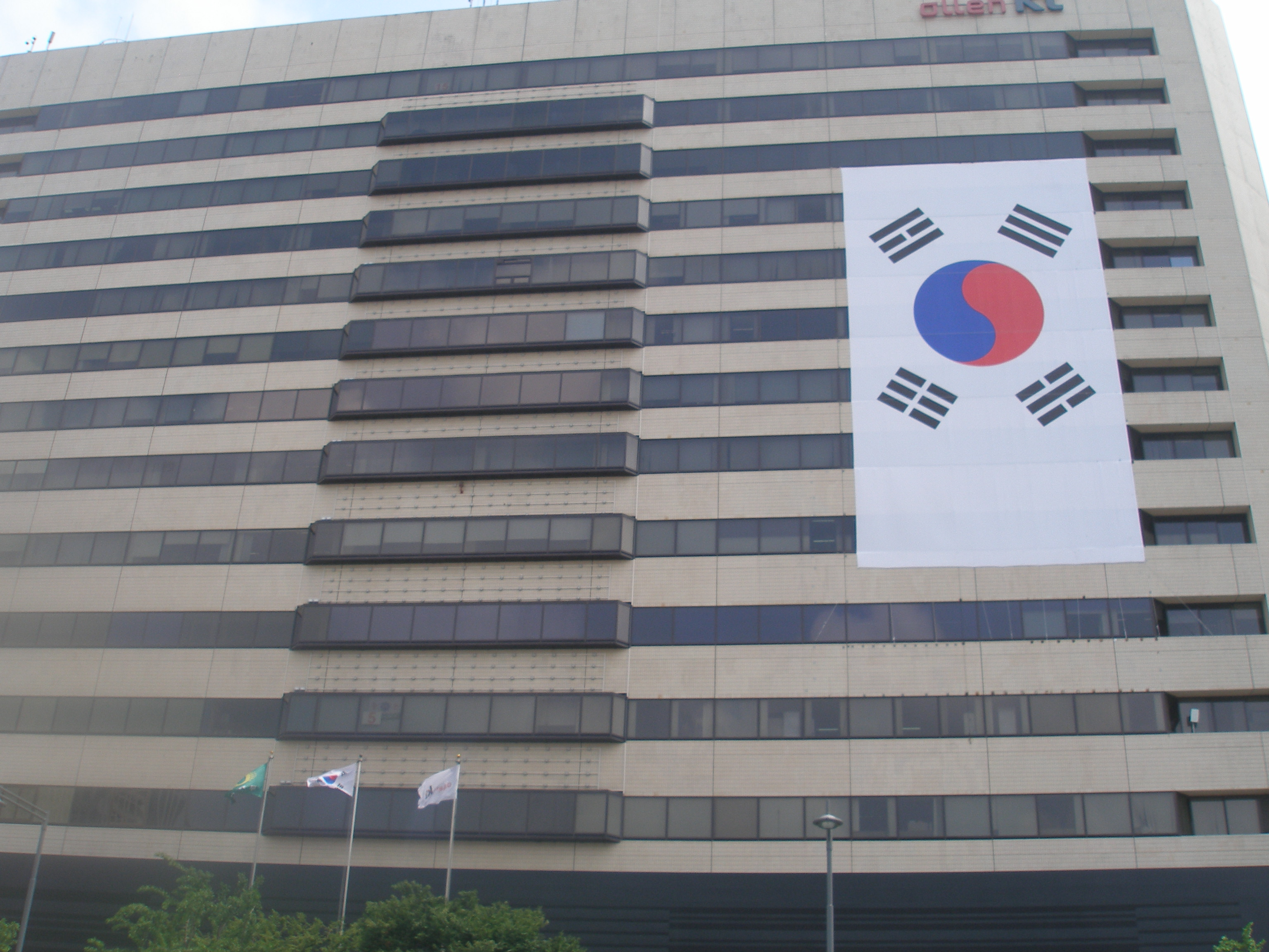 These were everywhere; apparently South Korea's run in the World Cup prompted a lot to get put up.